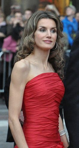 Wedding of Victoria, Crown Princess of Sweden, and Daniel Westling; Arrival of members for the Gouvernment and Swedish and foreign guests of hounour to the Riksdag's Gala Performance at Konserthuset